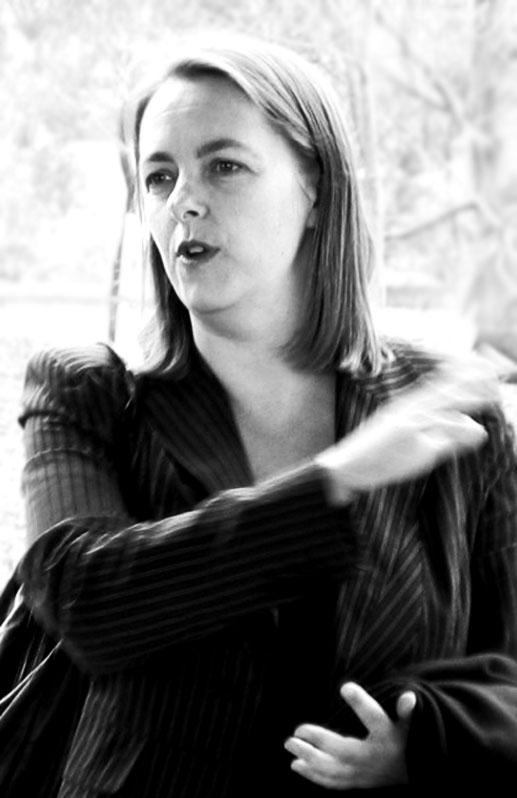 Nicola Roxon, federal ALP Member for Gellibrand, taking Graphic Design students on a tour for a Map Project - source